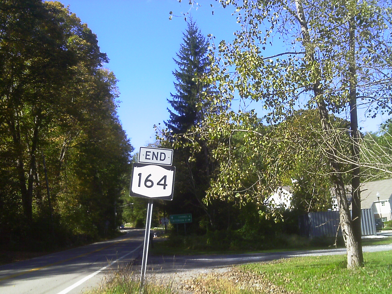 The western terminus of New York State Route 164 in the town of Patterson, New York. NY 311 is visible in the distance.